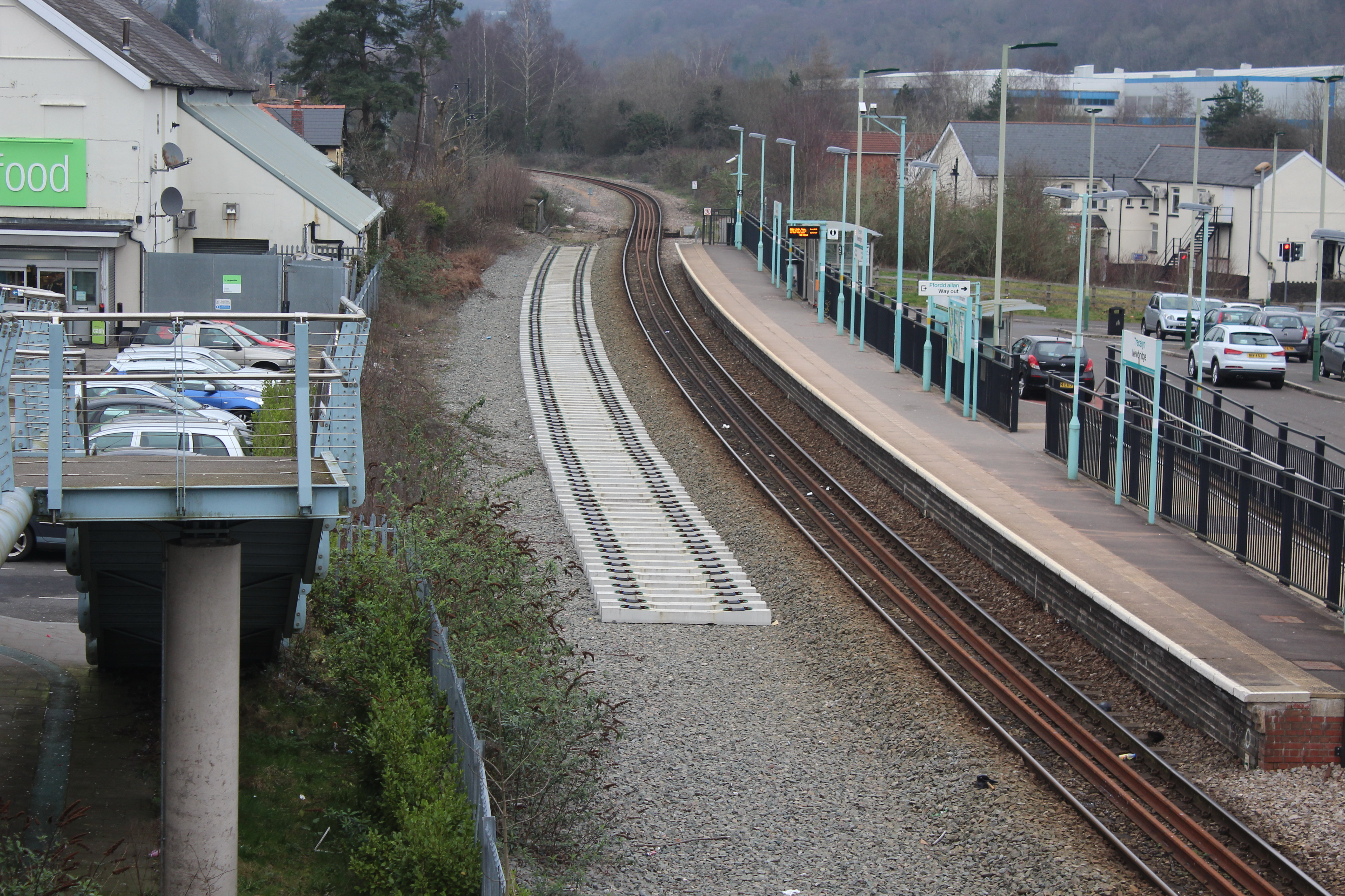 Newbridge Railway Station, Ebbw Valley Line